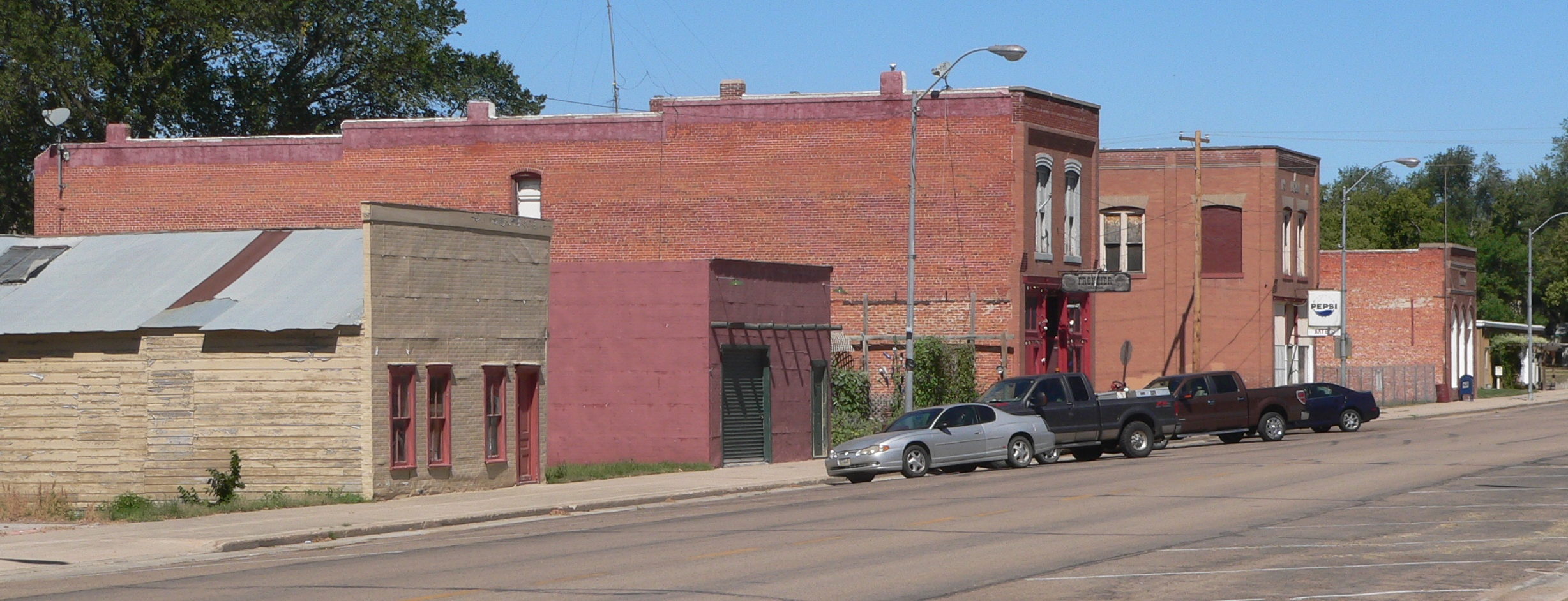 Downtown Belgrade, Nebraska: C Street, seen looking northwest from about Third Street.